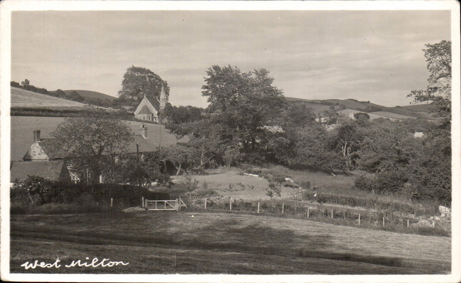 West Milton, Dorset, with the then parish church of St Mary Magdalene on the left